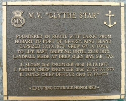 Plaque to the vessel MV Blythe Star, located at the Tasmanian Seafarers' Memorial, Triabunna, Tasmania Australia